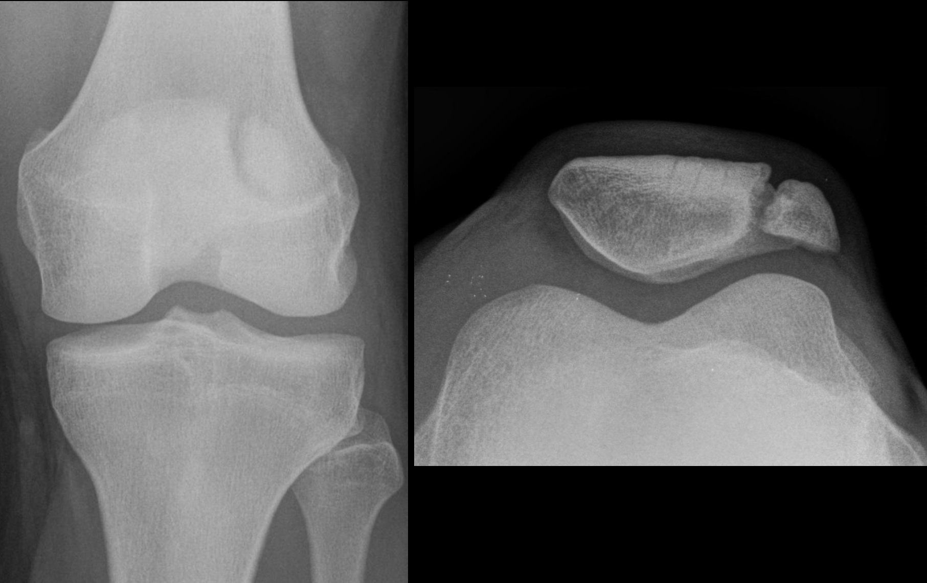 Bipartite patella. This is NOT a fracture!